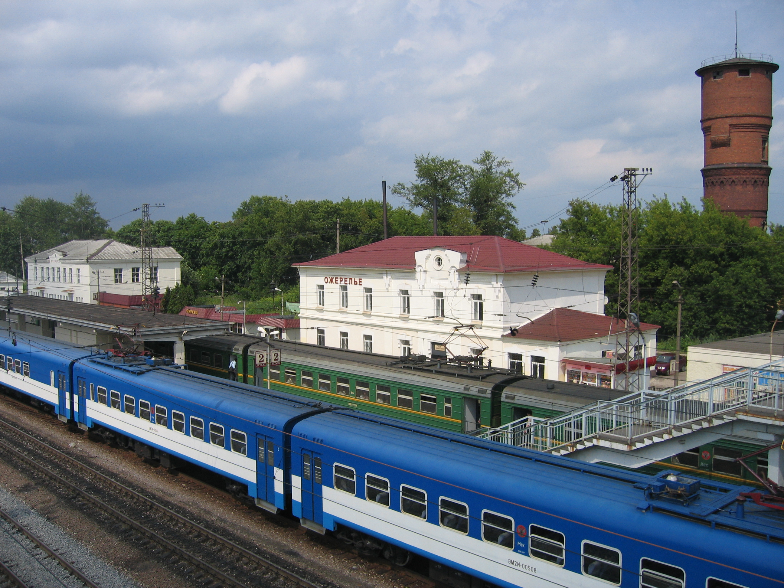 Train station in Ozherelye, Moscow Oblast, Russia